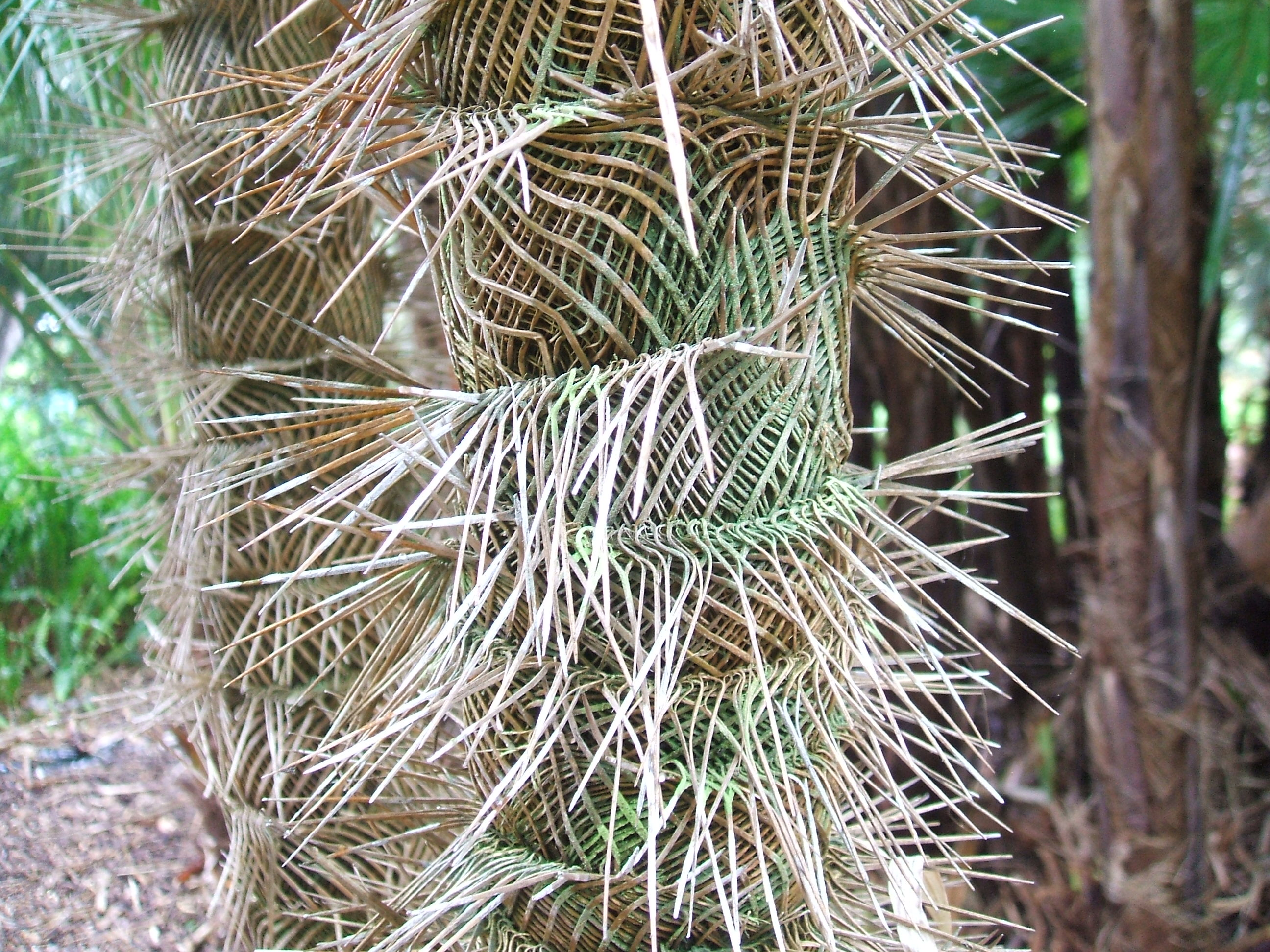 Zombia antillarum at Marie Selby Botanical Gardens, Sarasota, Florida, USA